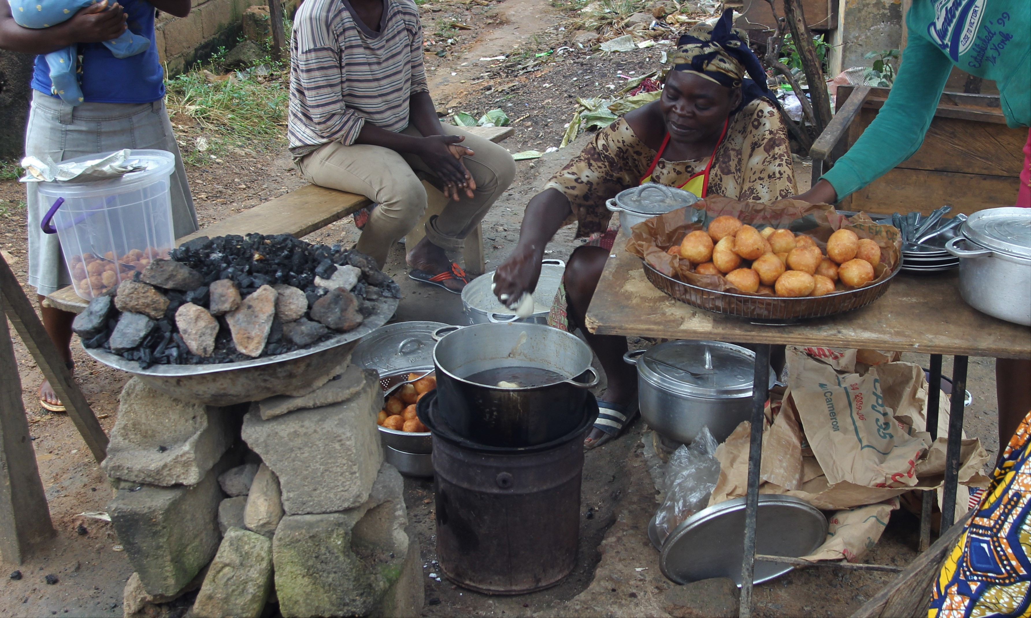 The woman fries donuts to sell to locals... daily occurrence all over Cameroon This is an image of "African people at work" from Cameroon